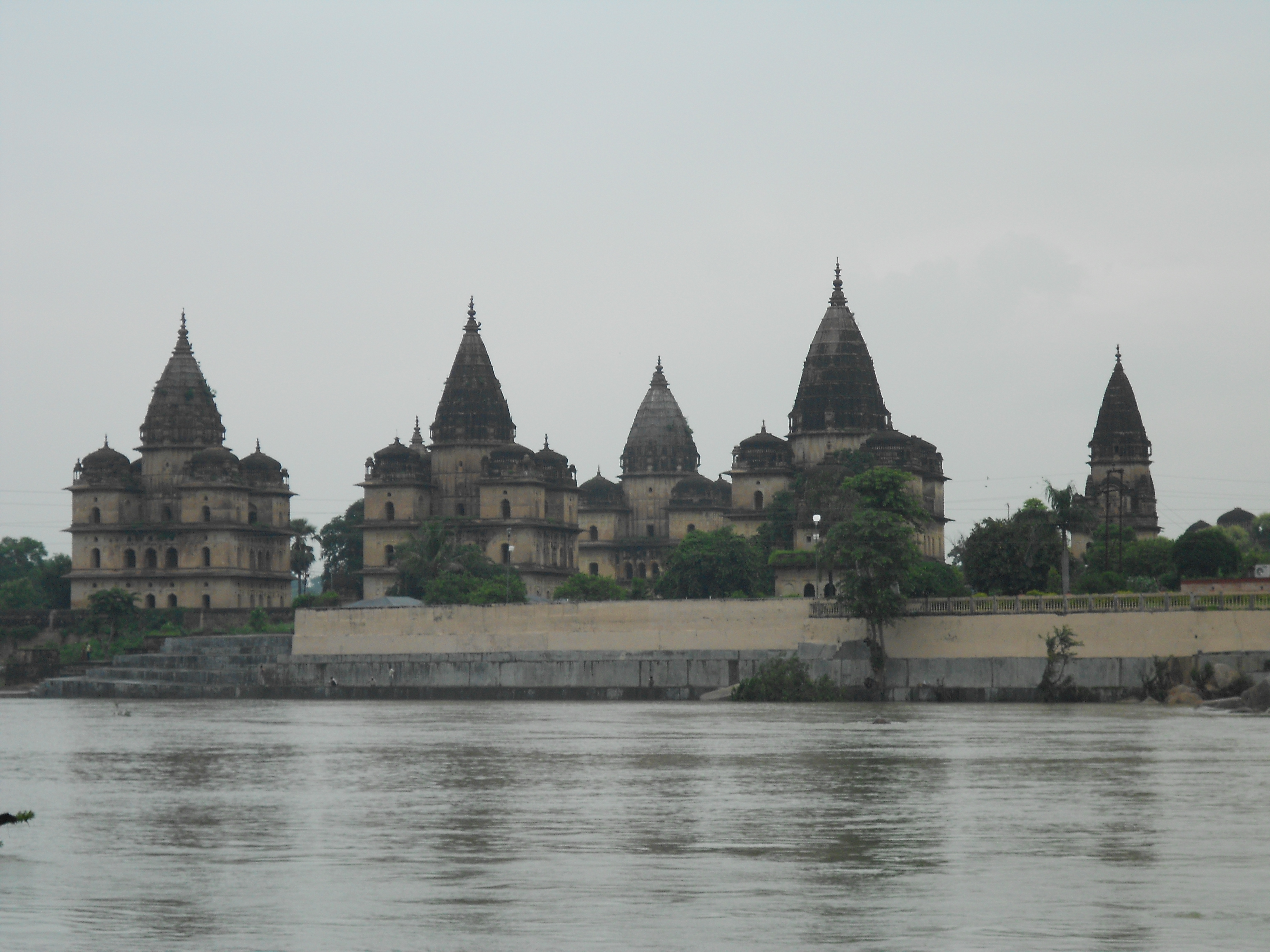 Chhatris on the bank of Betwa river, Orcha, District- Tikamgadh (Madhya Pradesh)